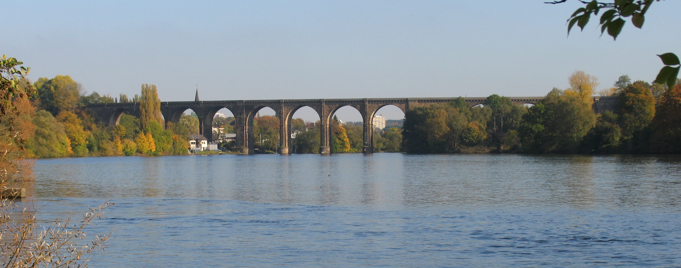 Railway Viaduct over Ruhr at Herdecke, Germany